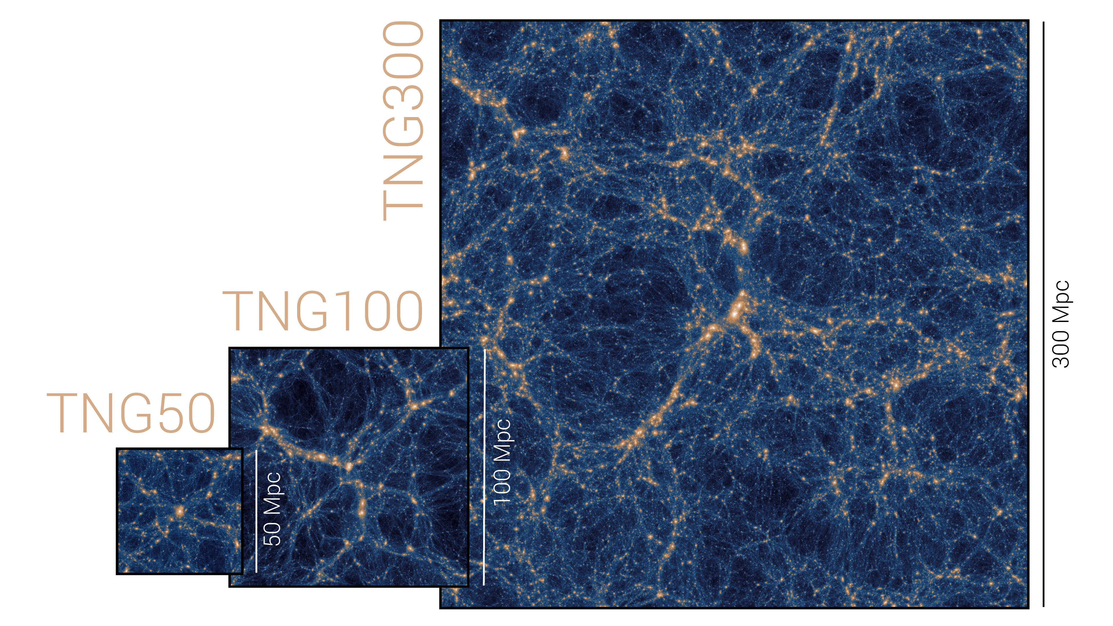 IllustrisTNG Simulation Suite